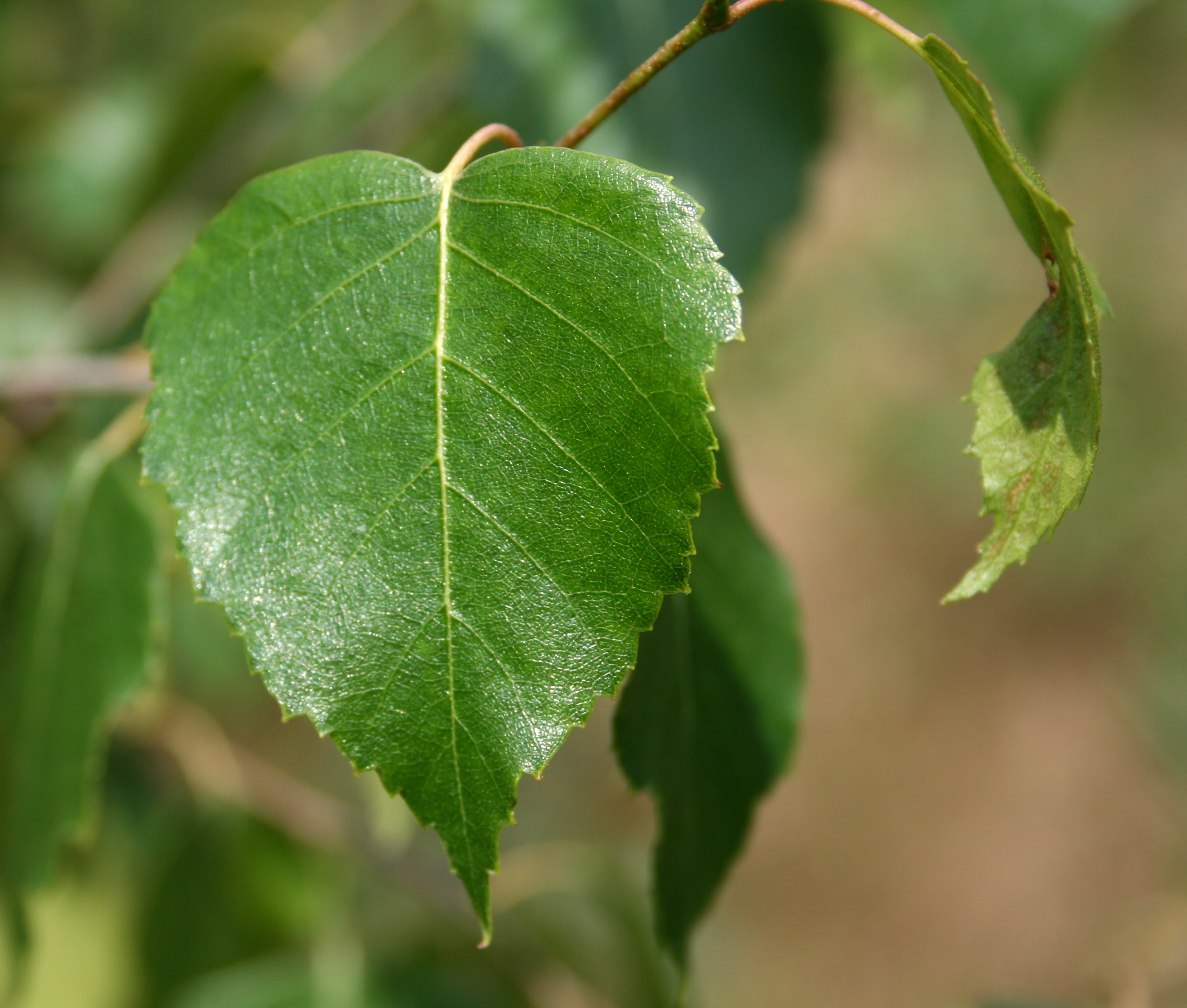 Leaf of Birch (betula)